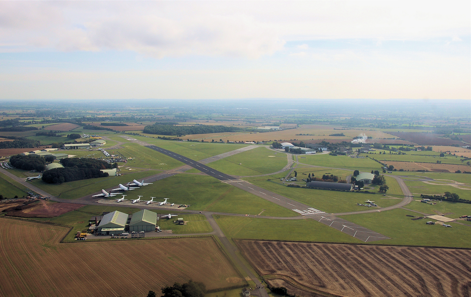 Cotswold Airport, Gloucestershire, England (previously known as Kemble Airport) from a Robinson R44 helicopter. Taken at a speed of 80 mph, a height of 750 feet and looking east, during a pleasure flight at Battle of Britain Weekend 2009. On the far left is preserved Bristol Britannia XM496 (nearly among the trees). The other aircraft seen (including the yellow group in the distance) are for storage, scrapping or resale. The Battle of Britain Weekend is the obvious area of activity (cars, light aircraft, people, tents) with the cream hard-to-see control tower amongst it.